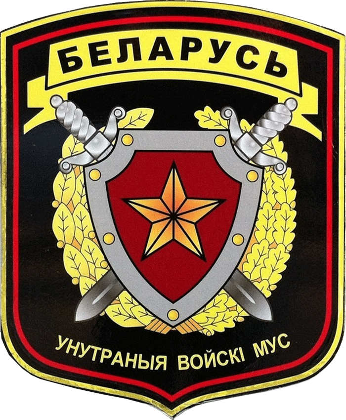 Patch of the Internal Troops of Belarus